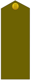 Millitary Insignia - Estonian Army Rank: Reamees